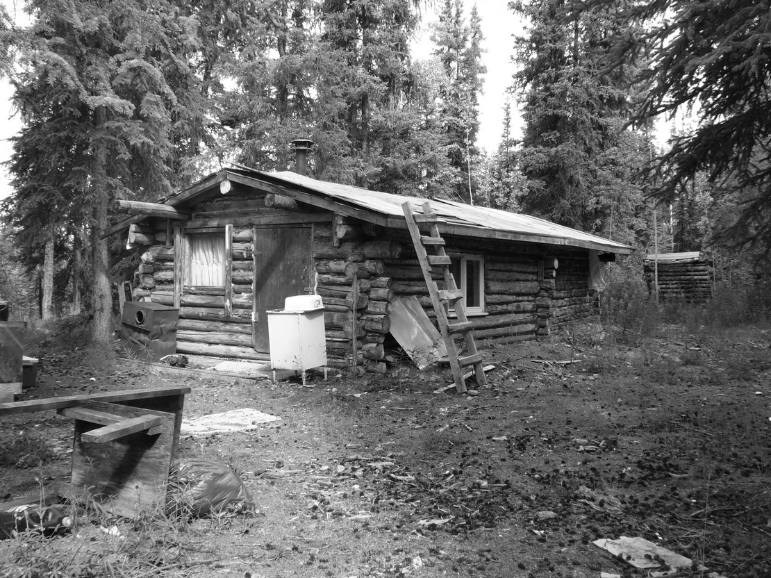 Cabin in the bush near Ross River